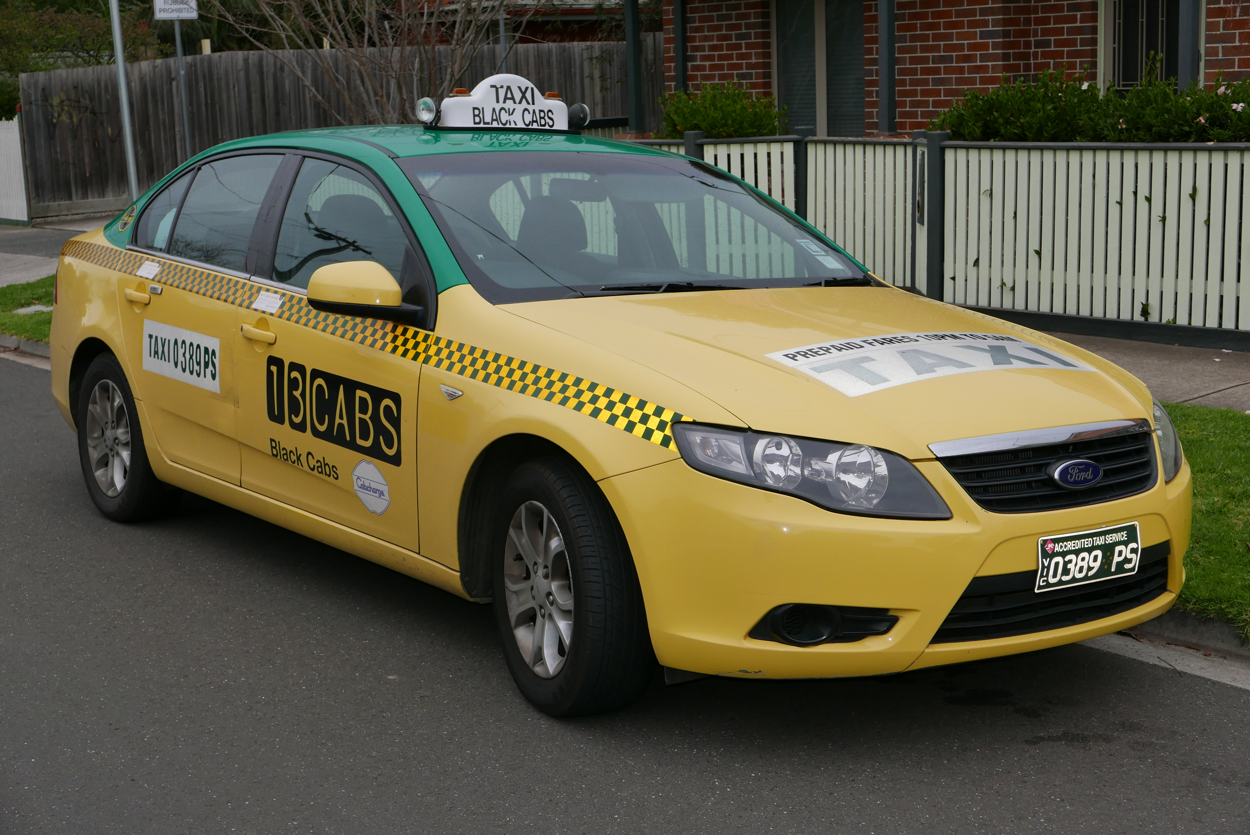 2008 Ford Falcon (FG) XT sedan, Black Cabs peak service taxi. Photographed in Ivanhoe, Victoria, Australia. Vehicle registration enquiry resultsJurisdictionVictoriaRegistration0389PSChassis code6FPAAAJGSW8Y26266Engine codeJGSW8Y26266Compliance date2008-10Year of manufacture2008